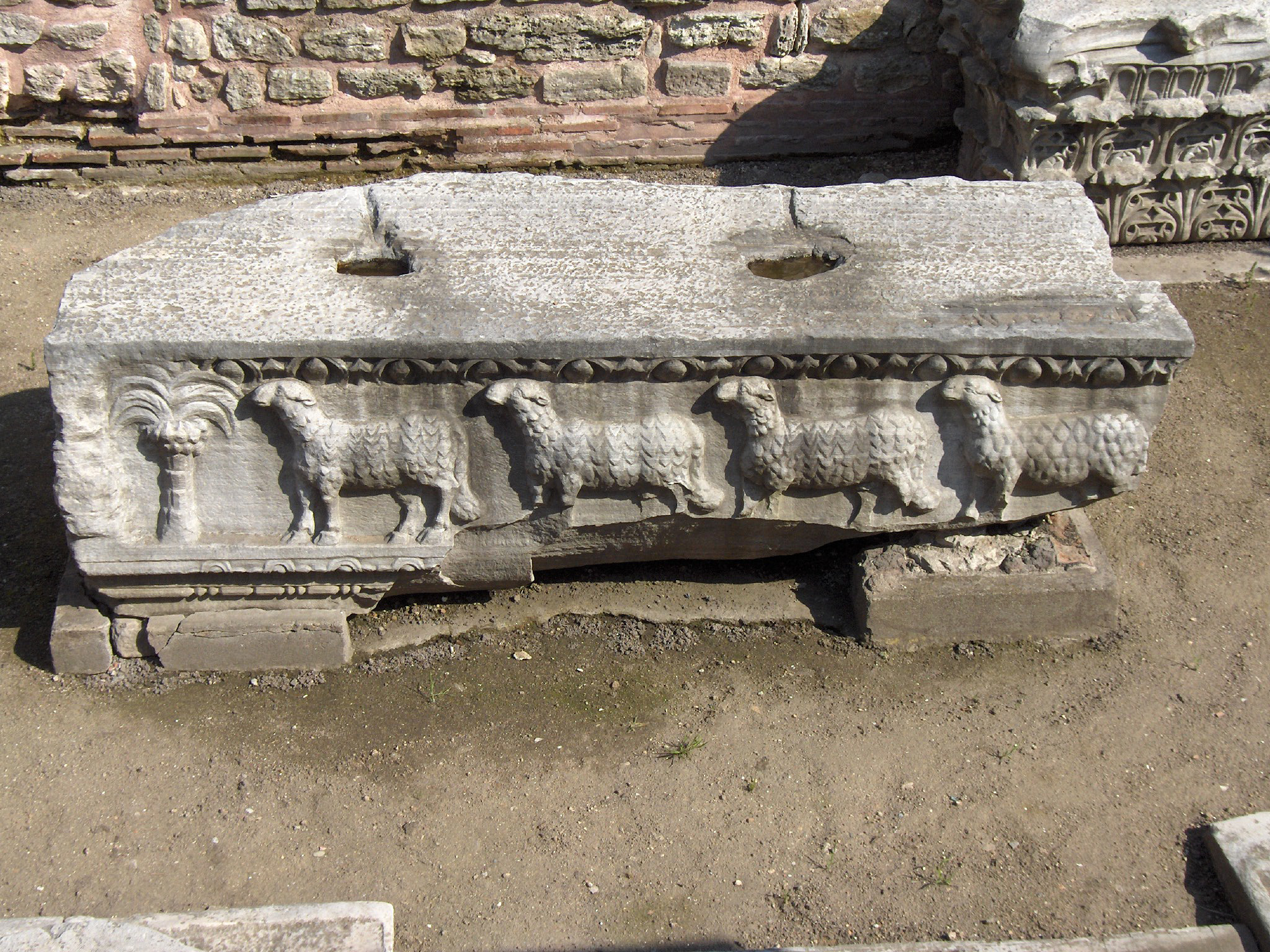 Hagia Sophia,remains of the older basilica, built under emperor Theodosius II; Istanbul, Turkey